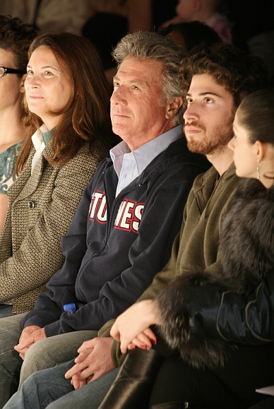 Dustin Hoffmann (center) with wife Lisa Gottsegen (left) and son Jake Hoffmann (right) at Joey Tierney at Mercedes Benz Fashion Week, Los Angeles